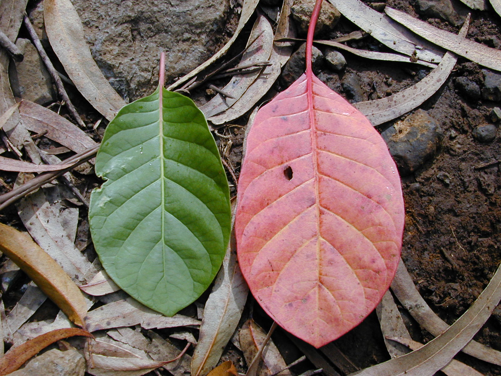 Cinchona pubescens (green and red leaves). Location: Maui, Makawao Forest Reserve